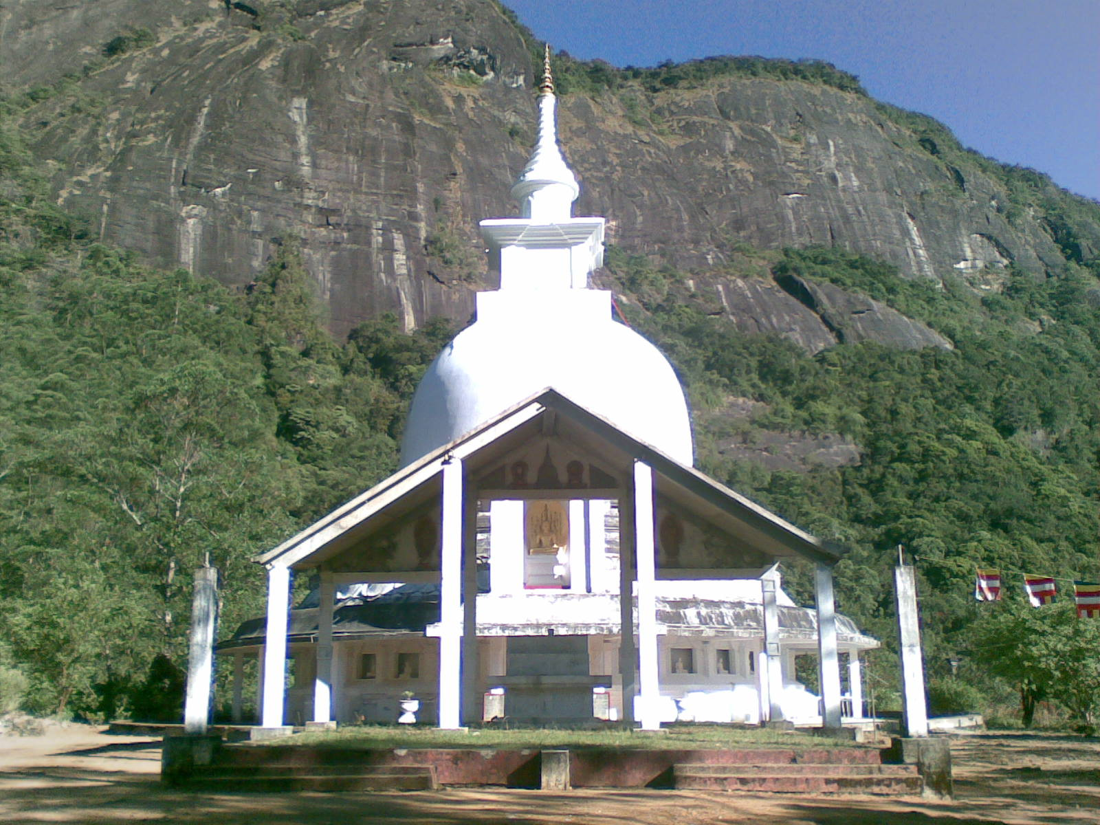 Peace Pagoda, Adam's Peak